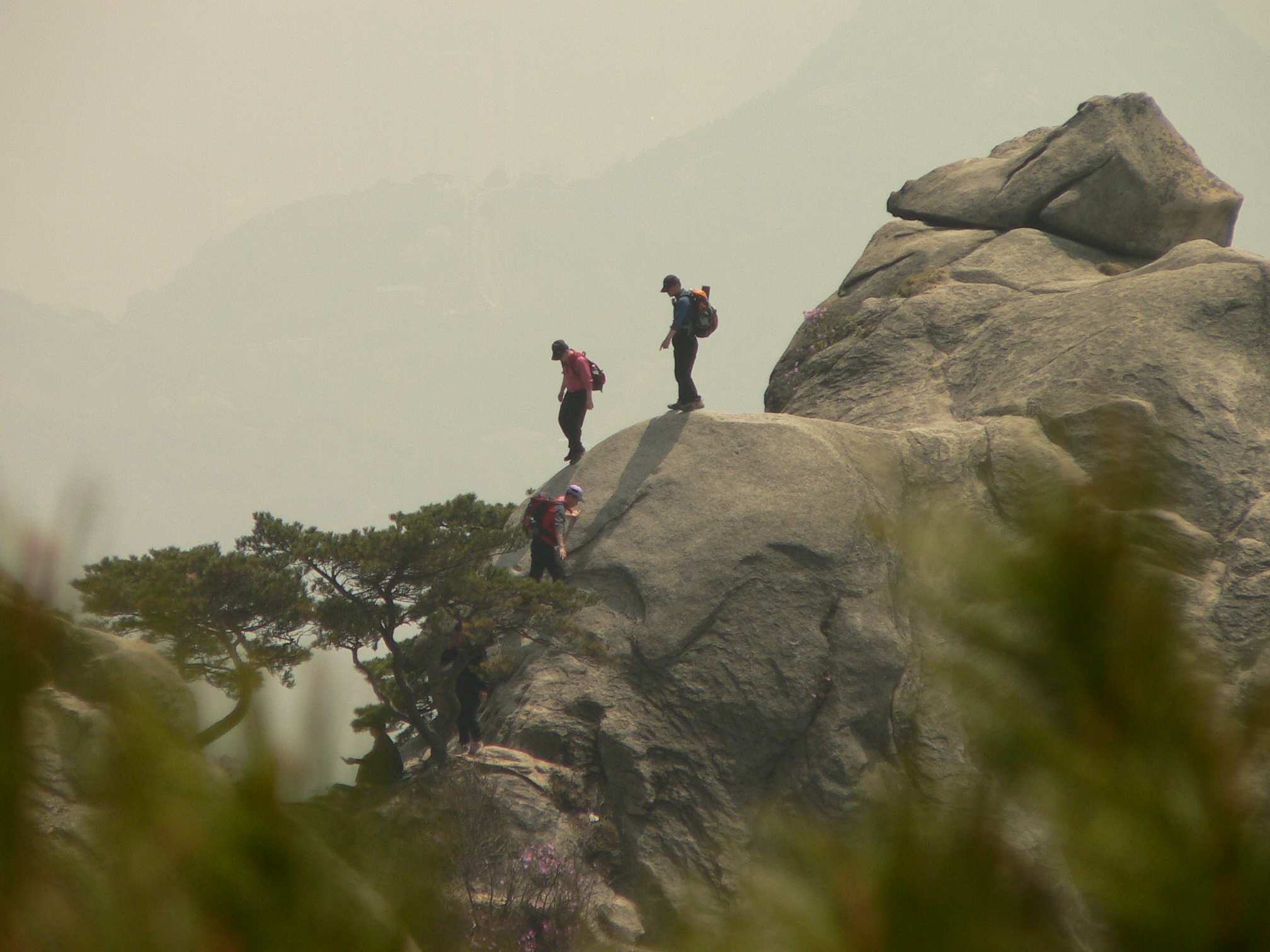 Bukhansan, mountain located on the north side of Seoul, South Korea.